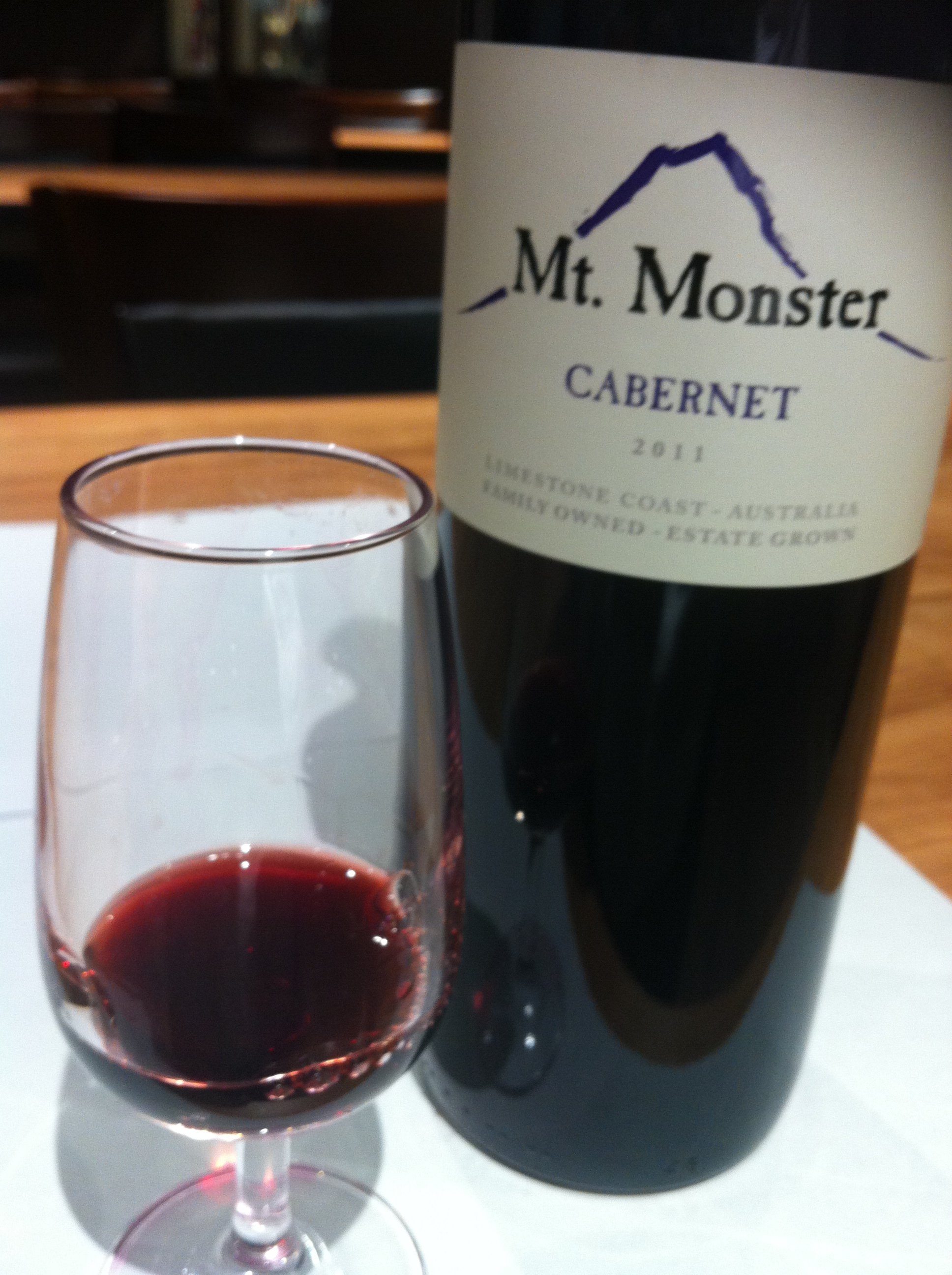 Cabernet Sauvignon from the Australian wine region of the Limestone Coast